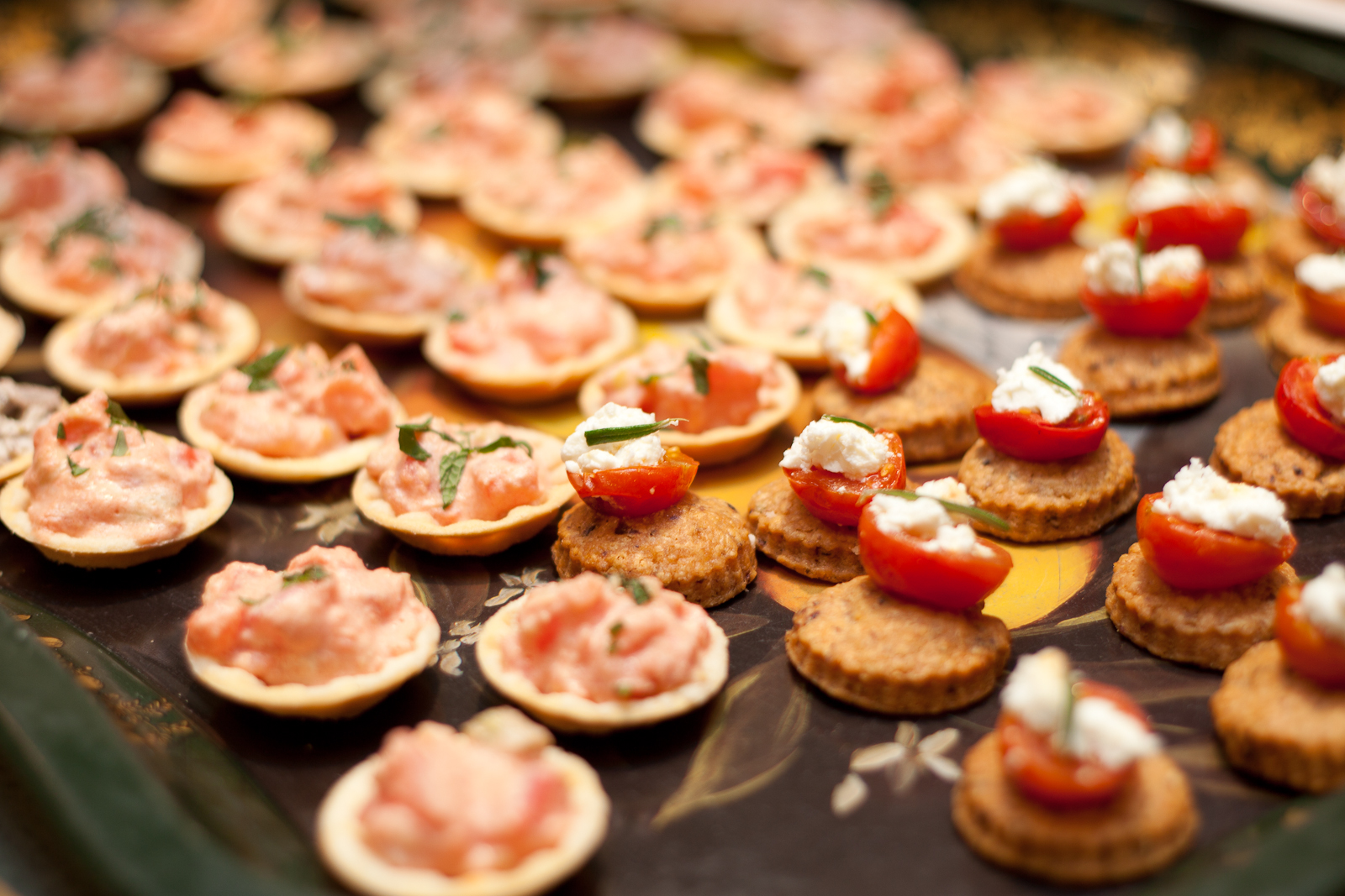 Hors d'oeuvre by Auriole Potter